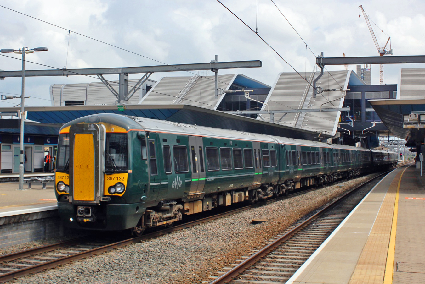 Great Western Railway 'Electrostars' 387132 and 387143 call at Reading with a service from London Paddington to Didcot Parkway.